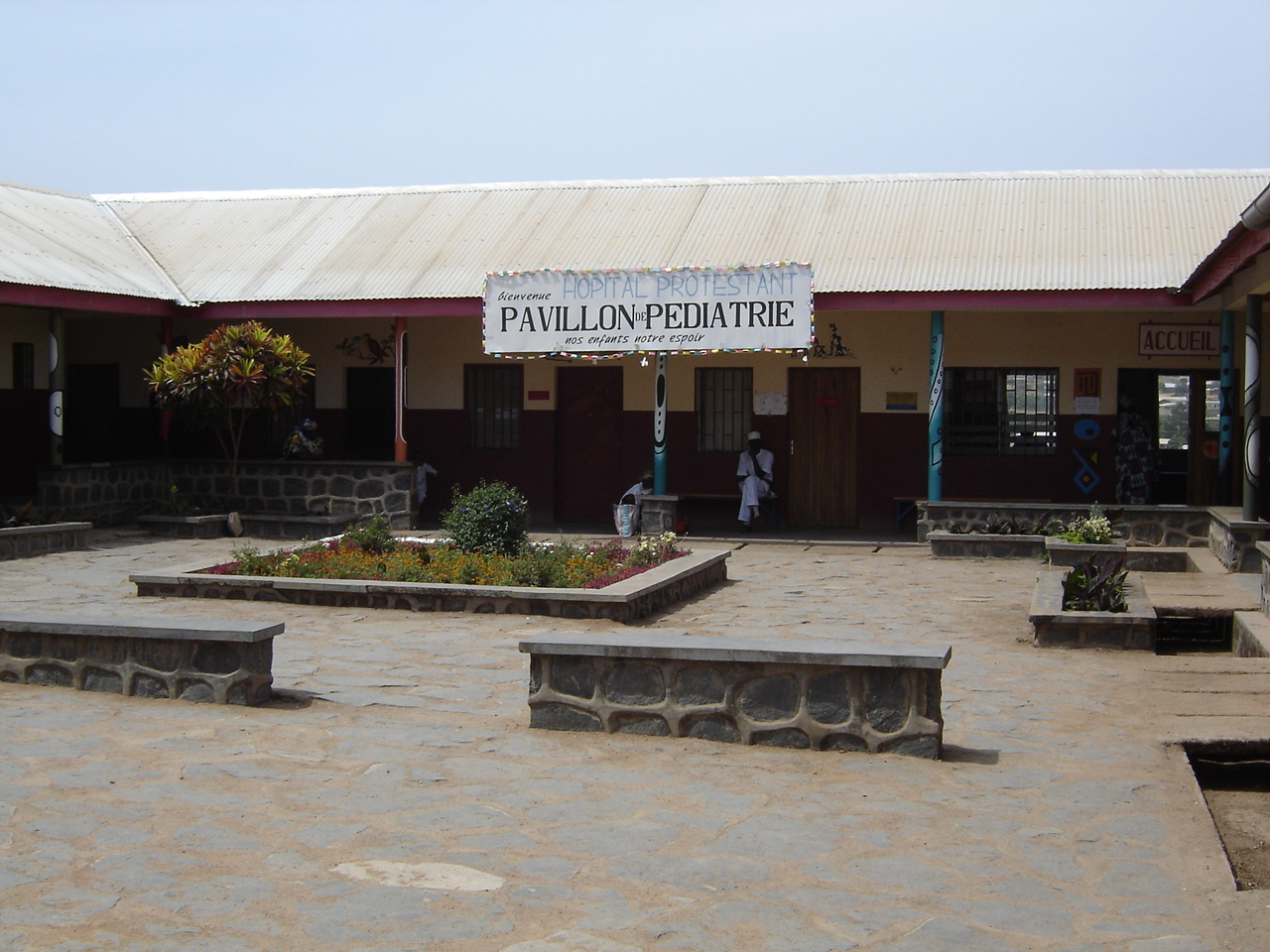 Paedriatric hospital in N'Gaoundere, Cameroon.